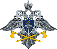 Emblem of the Special Construction Service of Russia.